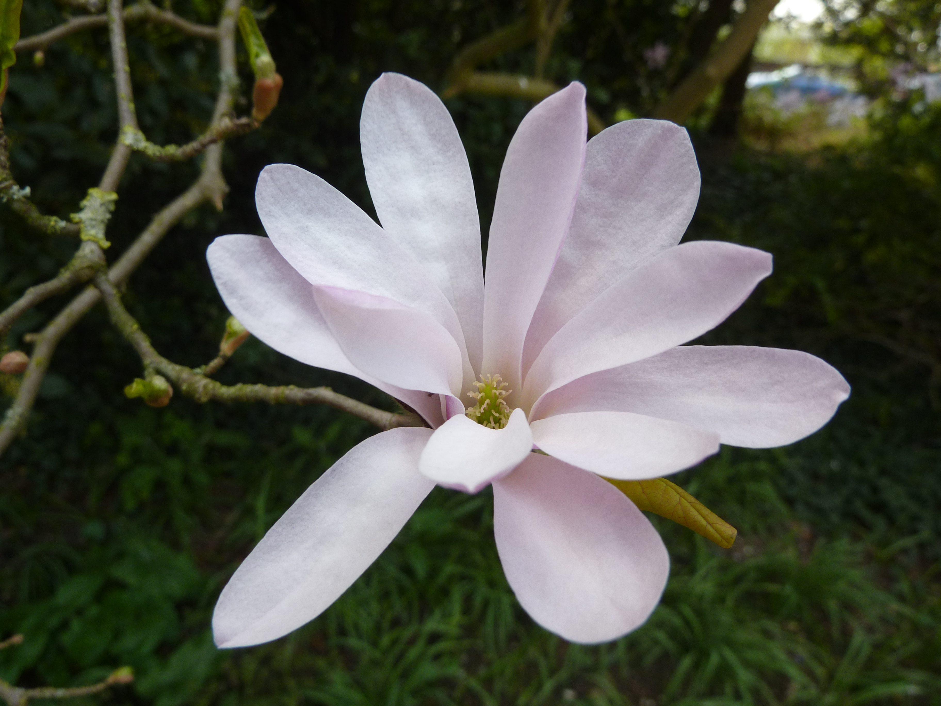 Taken in the Cambridge University Botanic Garden.